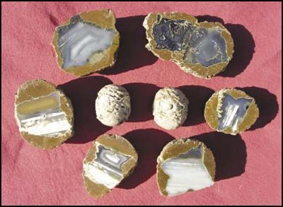 Display of Thundereggs — found at Whistler Springs in the Ochoco Mountains, within the Ochoco National Forest of central Oregon.